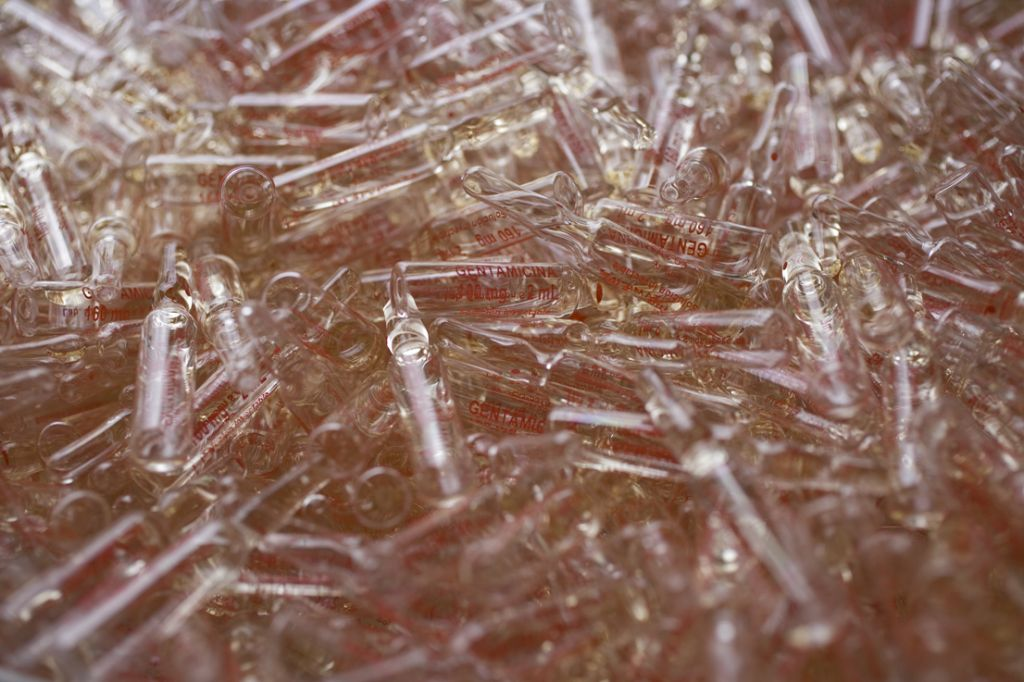 medical waste image used in the co-processing wiki